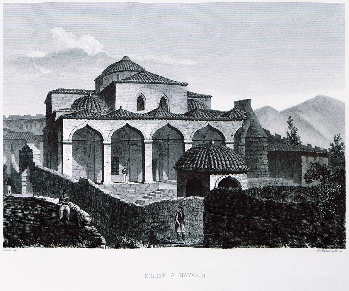 Church of the Transfiguration of the Lord, Pylos, Guillaume-Abel Blouet, 1831-1838 Original caption (French) Église à Navarin. (Church of Navarino) Location Pylos, Greece Publication details BLOUET, Guillaume-Abel. Expédition scientifique de Morée, Ordonnée par le Gouvernement français: Architecture, Sculptures, Inscriptions et Vues du Péloponèse, des Cyclades et de l'Attique, mesurées, dessinées, recueillies et publiées par Abel Blouet, Architecte, Directeur de la Section de l’Architecture et de Sculpture de l’Expédition, Ancien Pensionnaire de l’Académie de France à Rome; Amable Ravoisié et Achille Poirot, Architectes; Félix Crézel, Peintre d’Histoire, et Frédéric de Gournay, Littérateur. Ouvrage dédié au Roi, v. I-VI, Paris, Firmin Didot, 1831-1838.